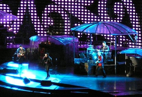 U2 playing "One Tree Hill" live in Auckland on 24 November 2006 on the Vertigo Tour. Photo taken by Melanie Jane (mjm_nz on Flickr). Image is cropped from the original (File:One Tree Hill 2006 by MJM NZ.jpg)